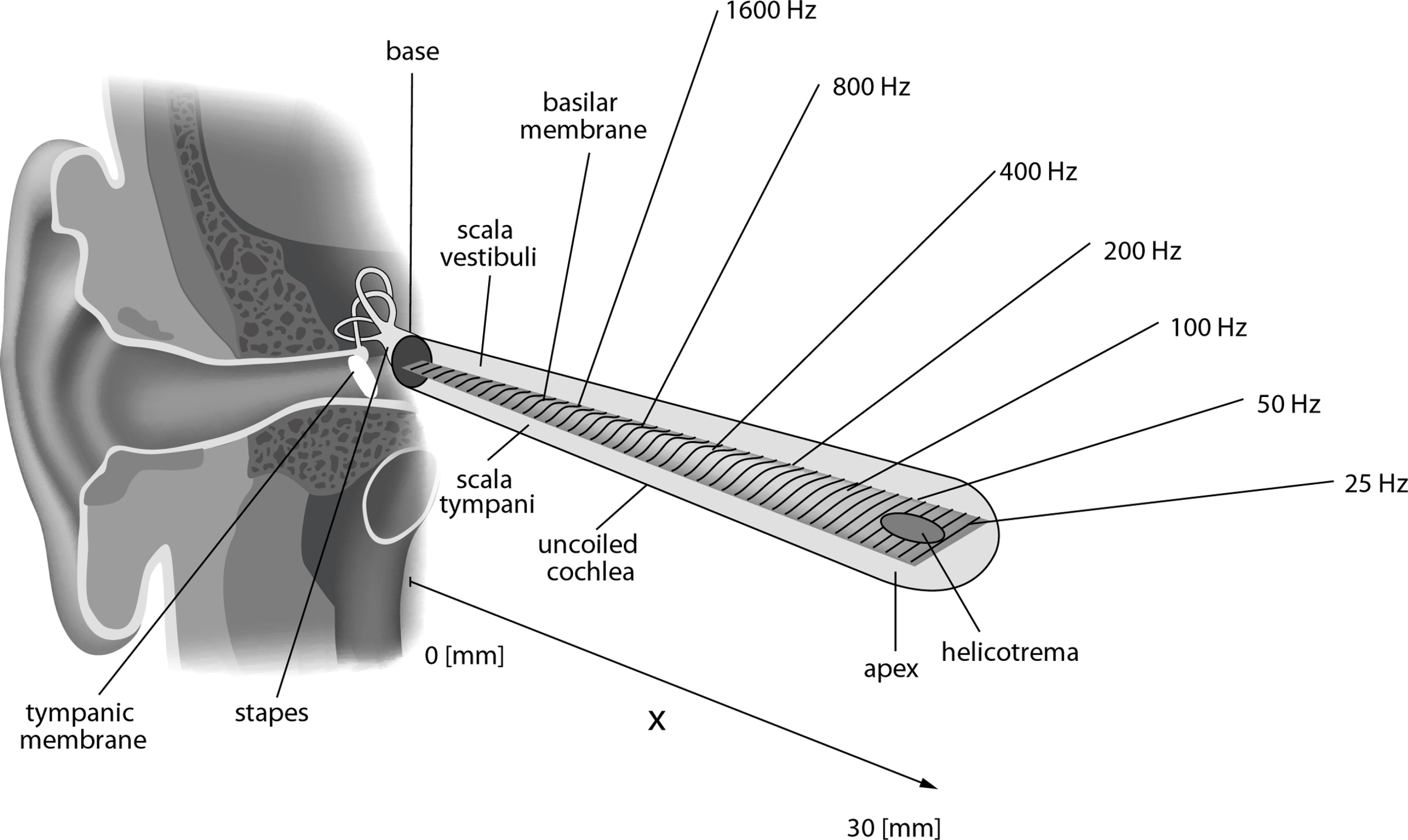 The position x of the maximal amplitude of the travelling wave corresponds in a 1-to-1 way to a stimulus frequency.